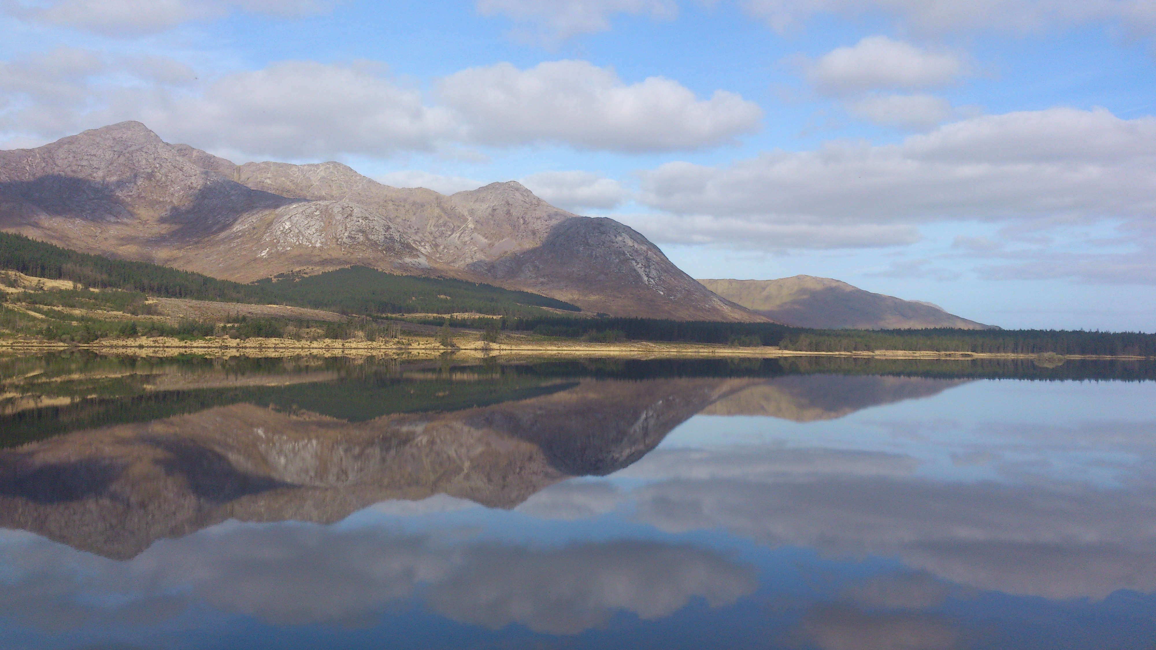 Twelve Bens summits of Bencorr and Benncorr North Top, and also showing Bencorr's two easterly spurs, from Lough Inagh. Mountain in the far background is Benbaun. Lough Inagh, Connemara, Co. Galway, Ireland